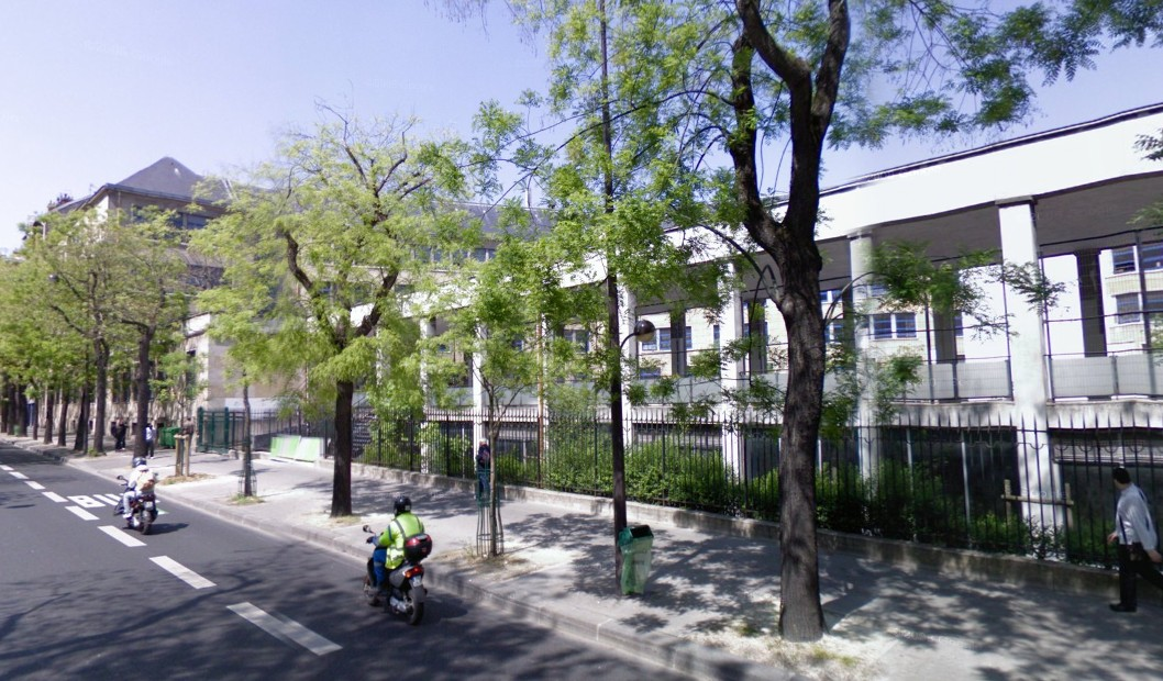 Lycée Claude Monet, 75013 Paris, France